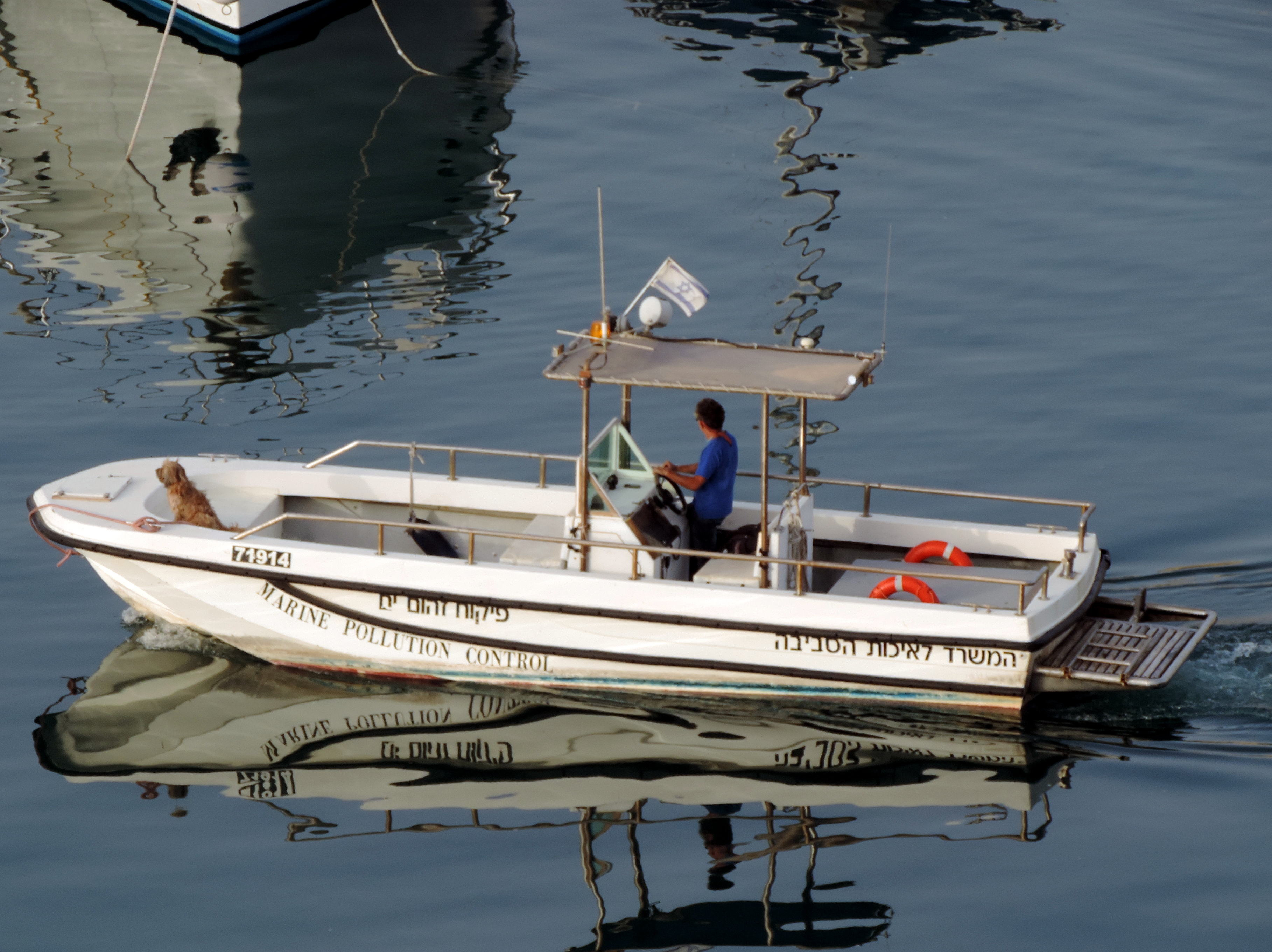 A water pollution inspector patrols Eilat marina.